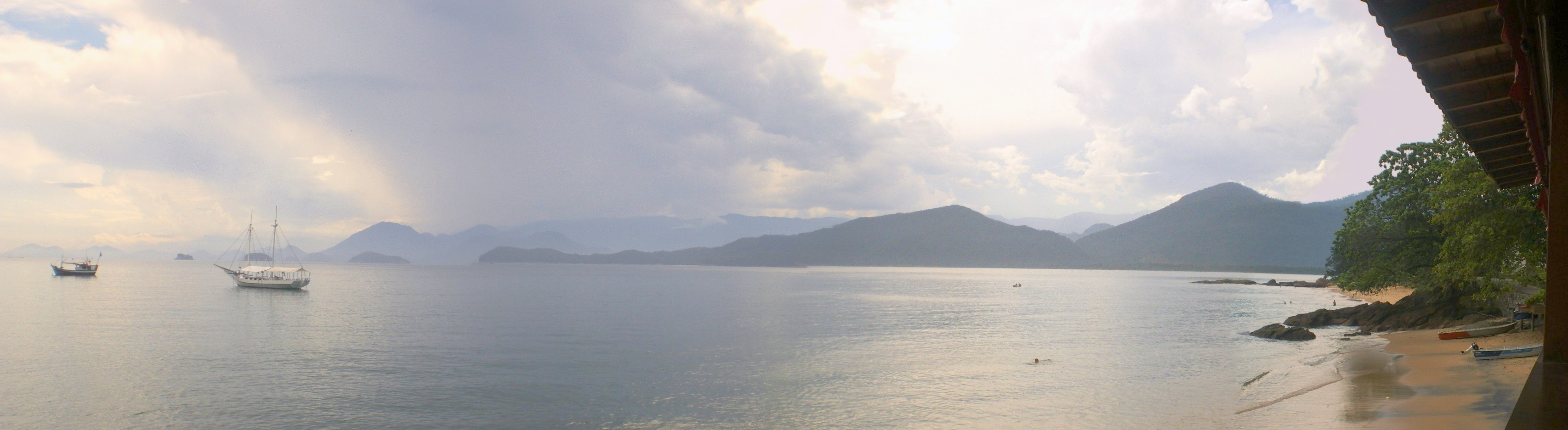 Picinguaba, Ubatuba, São Paulo, Brazil.